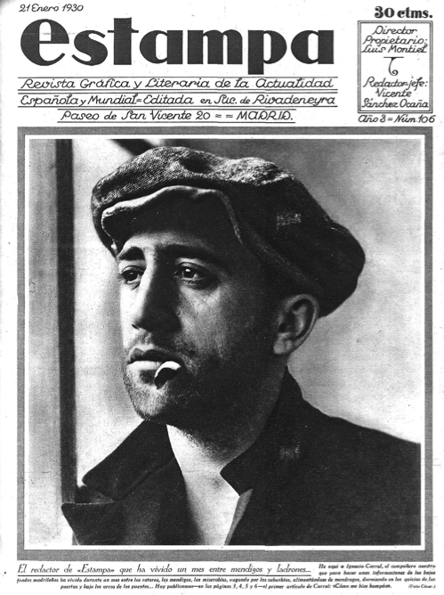 Front page of Estampa 1930.01.21